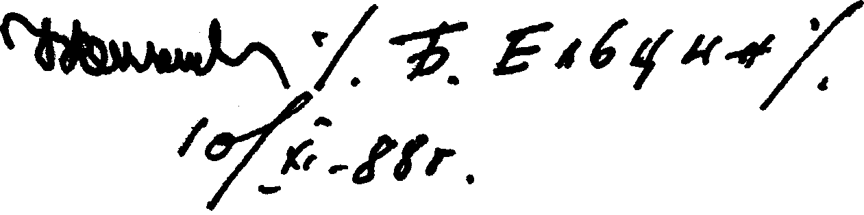 Boris Yeltsin's autograph, 10 November 1988. The month is specified by Roman numerals.